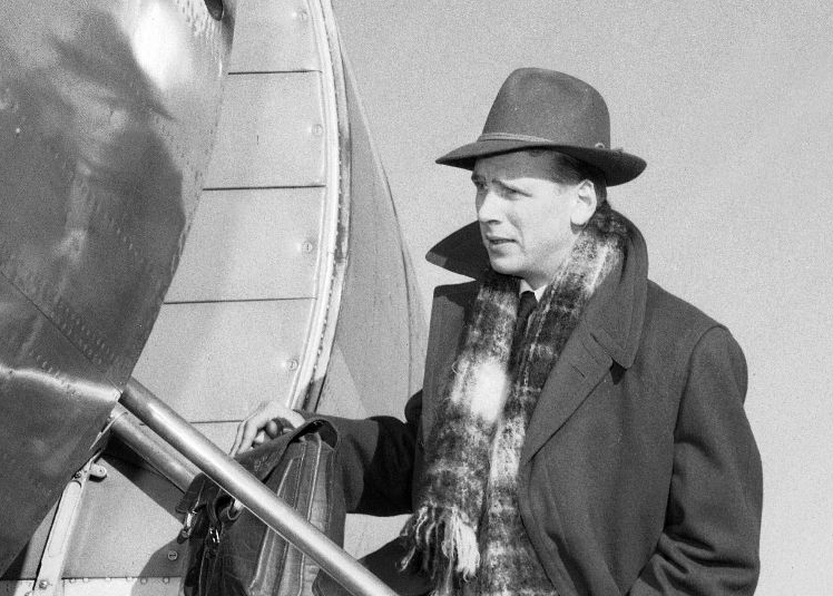 Photograph of the Finnish journalist Simopekka Nortamo (1927–2003) entering an aeroplane.